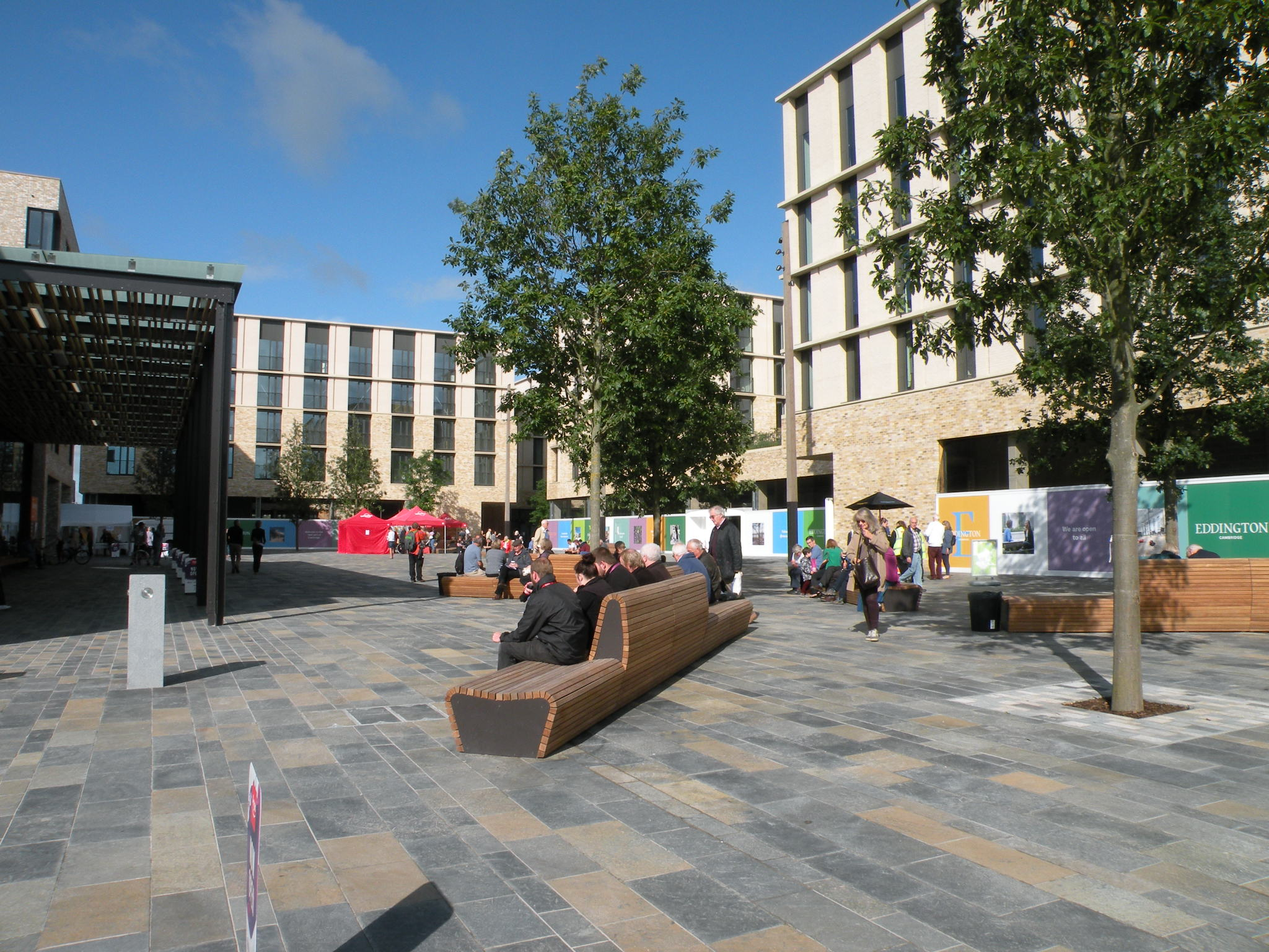 The Market Square in the Eddington development, north-west Cambridge, on the day of its official "opening"